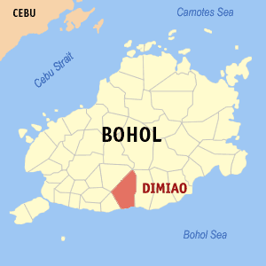 Map of Bohol showing the location of Dimiao